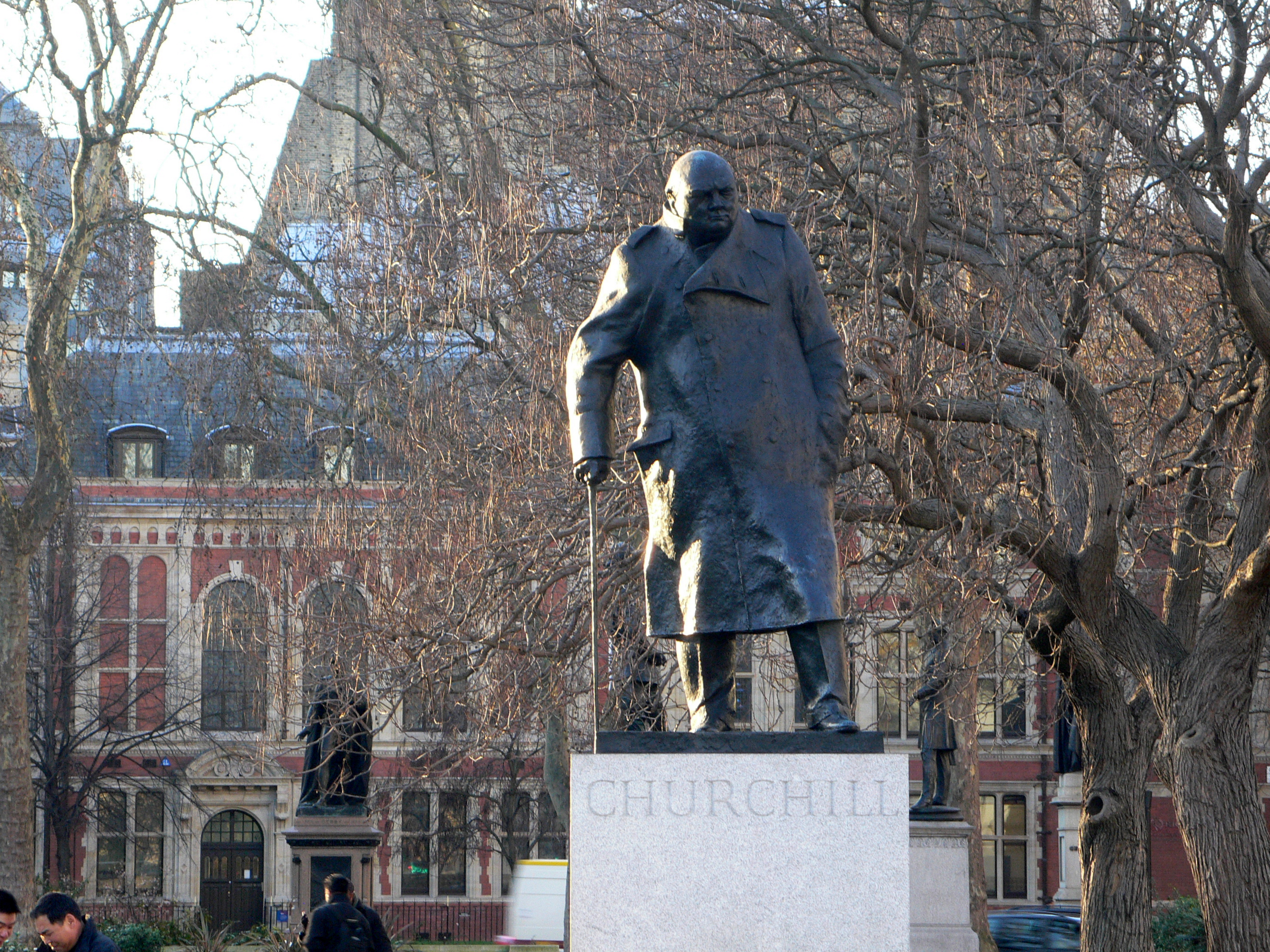 Churchill